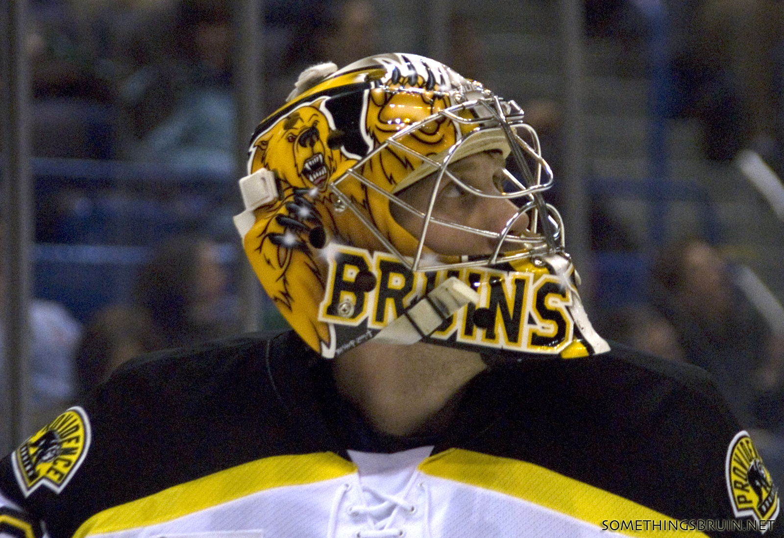 ERI_3112 Providence Bruins vs Connecticut Whale in American Hockey League action at the XL Center in Hartford, Connecticut. This photo was taken by Sarah Connors on January 15, 2011 using a Nikon D200. This photo also appears in sarah_connors' Flickr photostream, and is one of a set of 216 "Providence @ Whale, 1/15/11" Tags: Boston Bruins, Providence Bruins, New York Rangers, Connecticut Whale, NHL, AHL, XL Center, hockey, icehockey, Hartford Wolf Pack